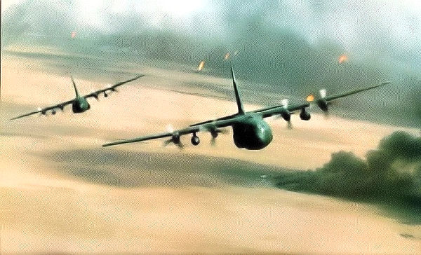 Two USAF Lockheed C-130 Hercules from the 180th Airlift Squadron, Missouri Air National Guard over Kuwait in 1991.